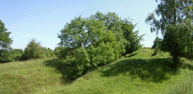 "The Dongas" hollow ways, Twyford Down. This picture is looking east from the edge of the grid square at some of the medieval hollow ways on Twyford Down. These ancient trackways come down from the South Downs to Winchester, and over the centuries the action of hooves, wheels and feet wore deep channels into the chalk. When one became too treacherous another parallel route would be taken. Now the hollow ways are grassed over with trees and bushes growing on the slopes. This is part of the St Catherine's Hill nature reserve (although separated from the hill proper by the M3 cutting).